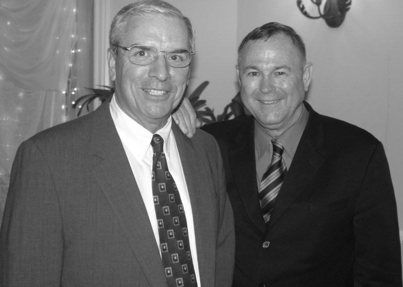 steve kuykendall & Dana Rohrabacher US Representatives from California